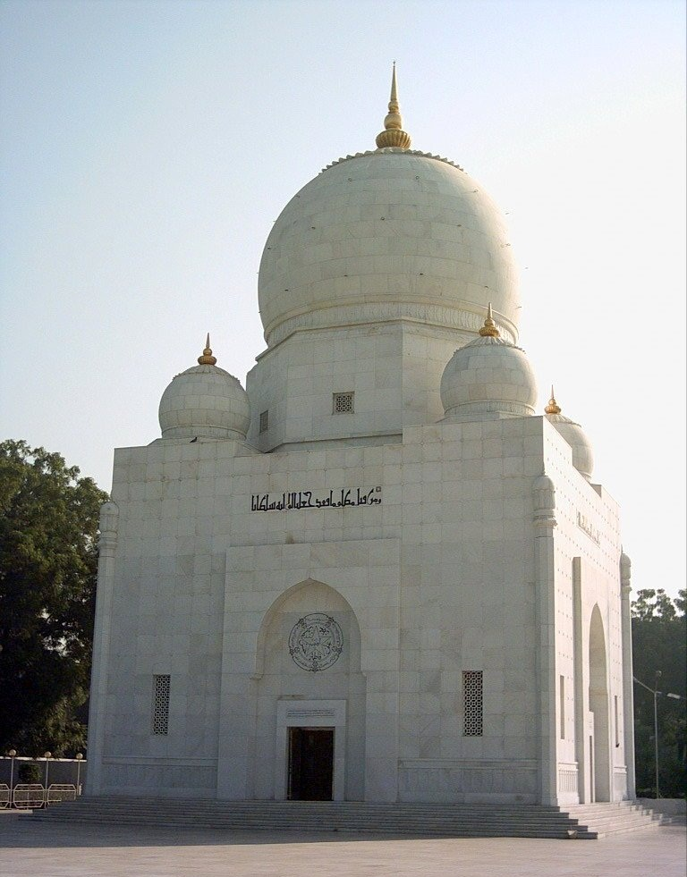 Syedna Qutubuddin Shaheed Mausoleum in Ahmedabad